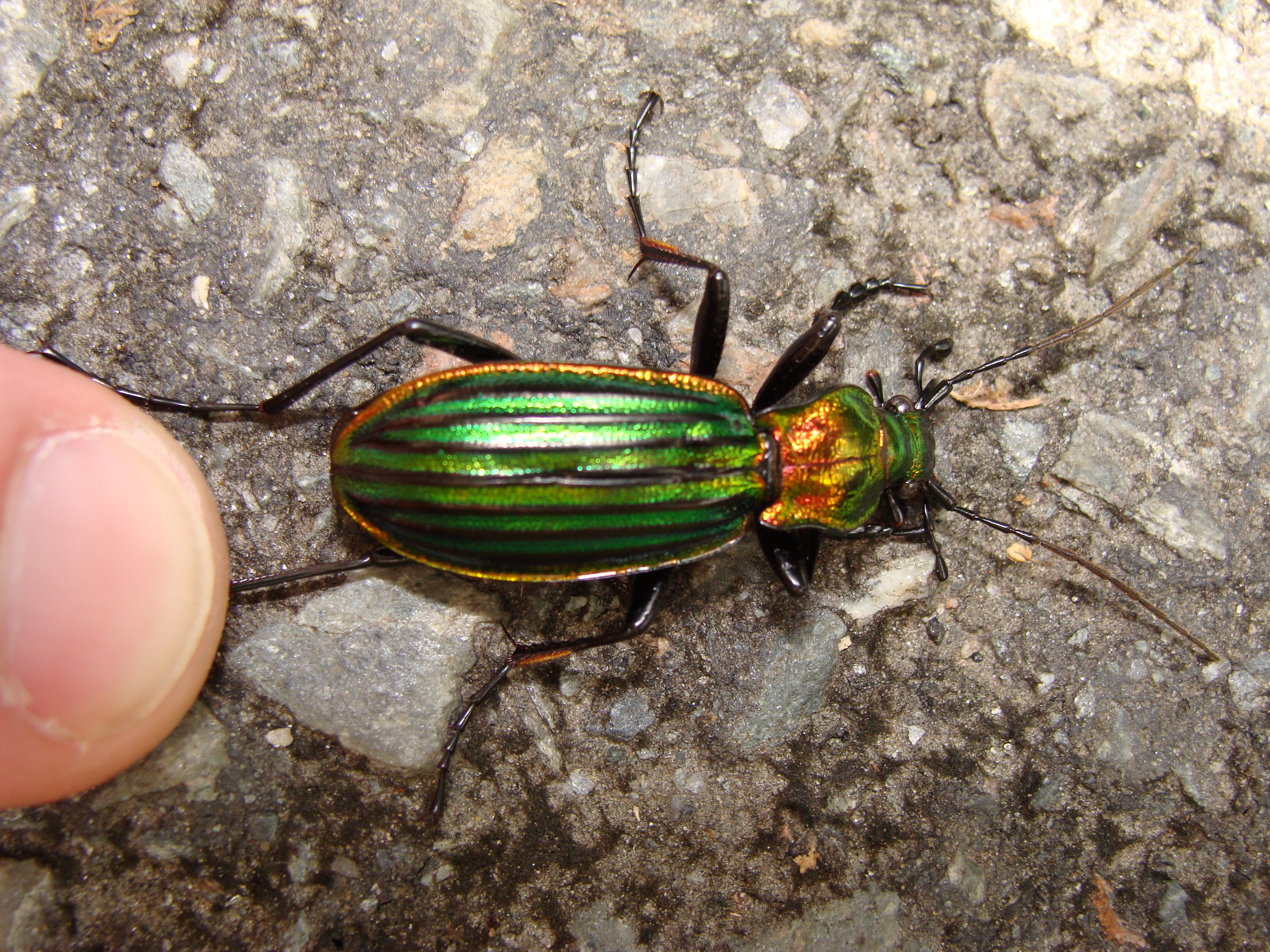 Carabus lineatus in Natural Park of Fragas do Eume, Corunna, Galicia, España.